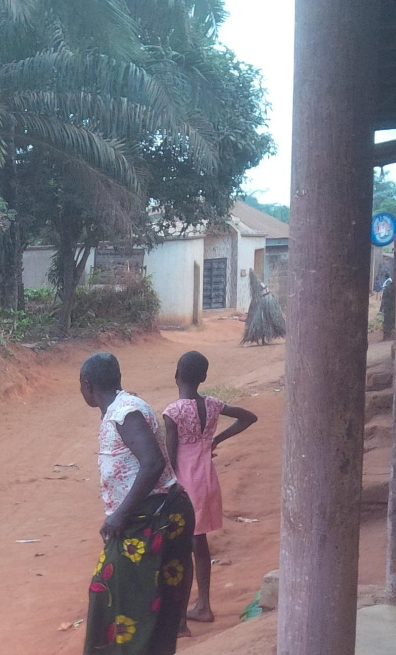 Mother with child watches a spirit masquerade with keen interest in Amankwo Ngwo south eastern Nigeria as the masquerade parades the village. This is an image with the theme "Play" from: Nigeria